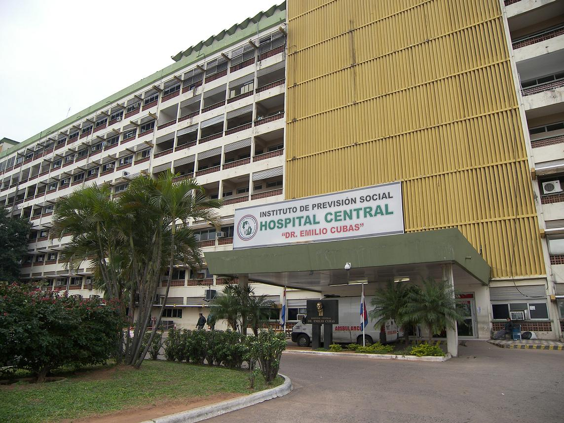 Hospital Central del Instituto de Previsión Social en Asunción